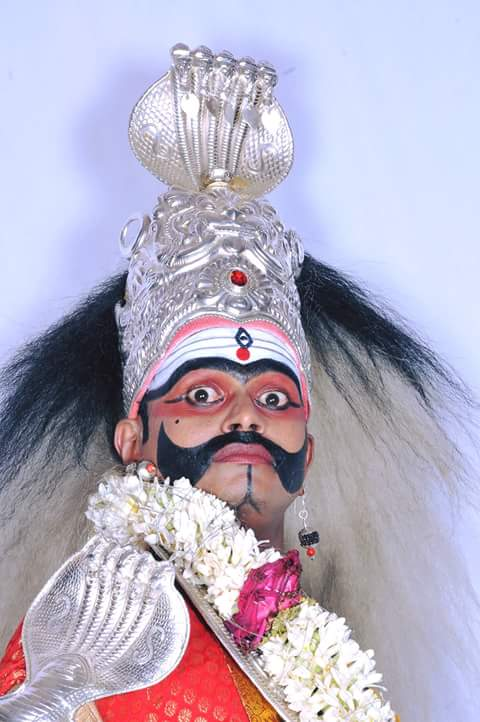 type of dance for which is famous in Karnataka